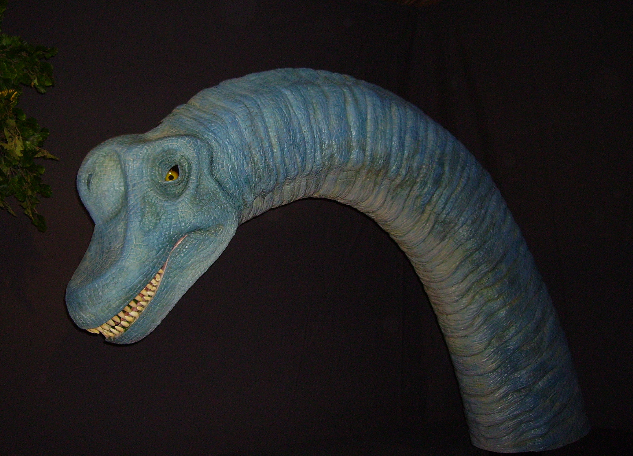 Brachiosaurus animatronic model, Natural History Museum, London.